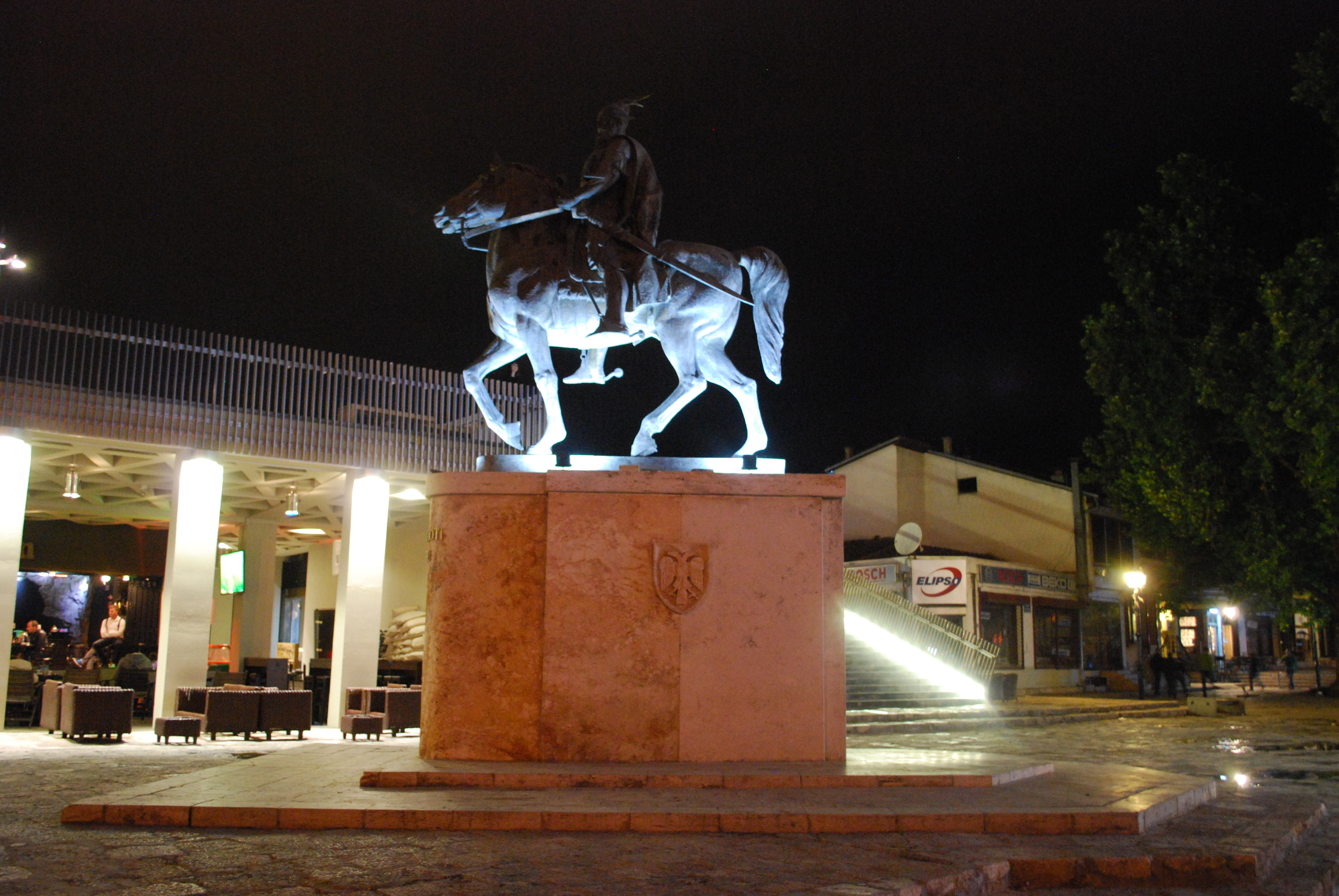 Night in Skopje, Macedonia This image is uploaded as part of the picture contest Wiki Loves Cultural Heritage in Macedonia 2013. English | македонски | +/−